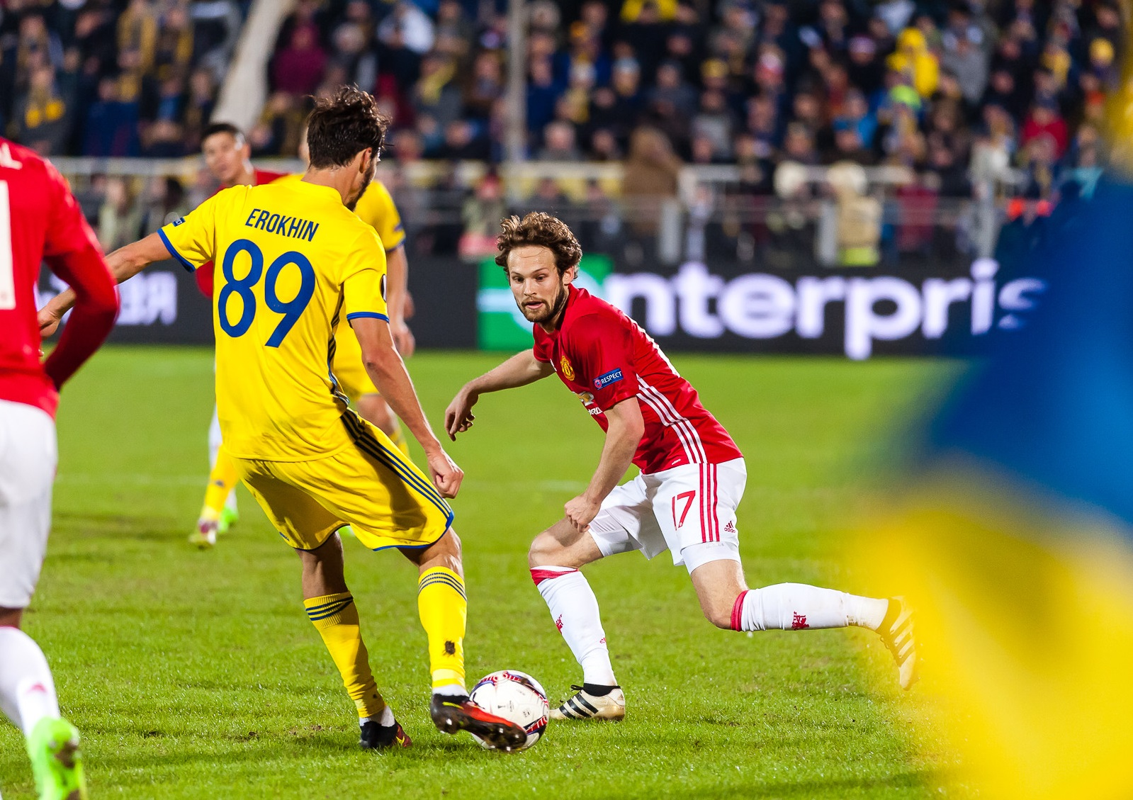 Aleksandr Erokhin (FC Rostov) vs Daley Blind (Manchester United) during UEFA Europa league match